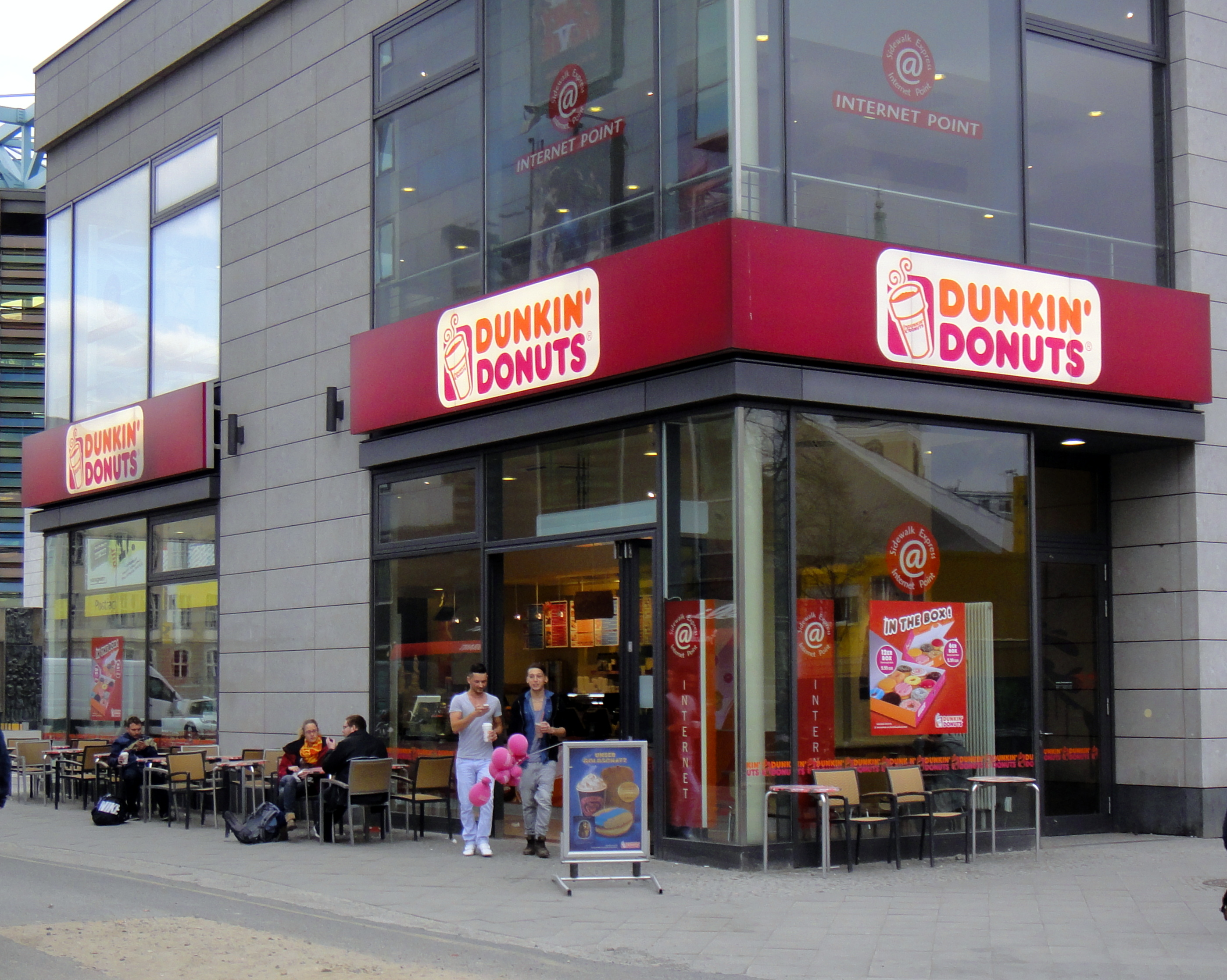 Dunkin' DOnuts on the Alexanderplatz, Berlin